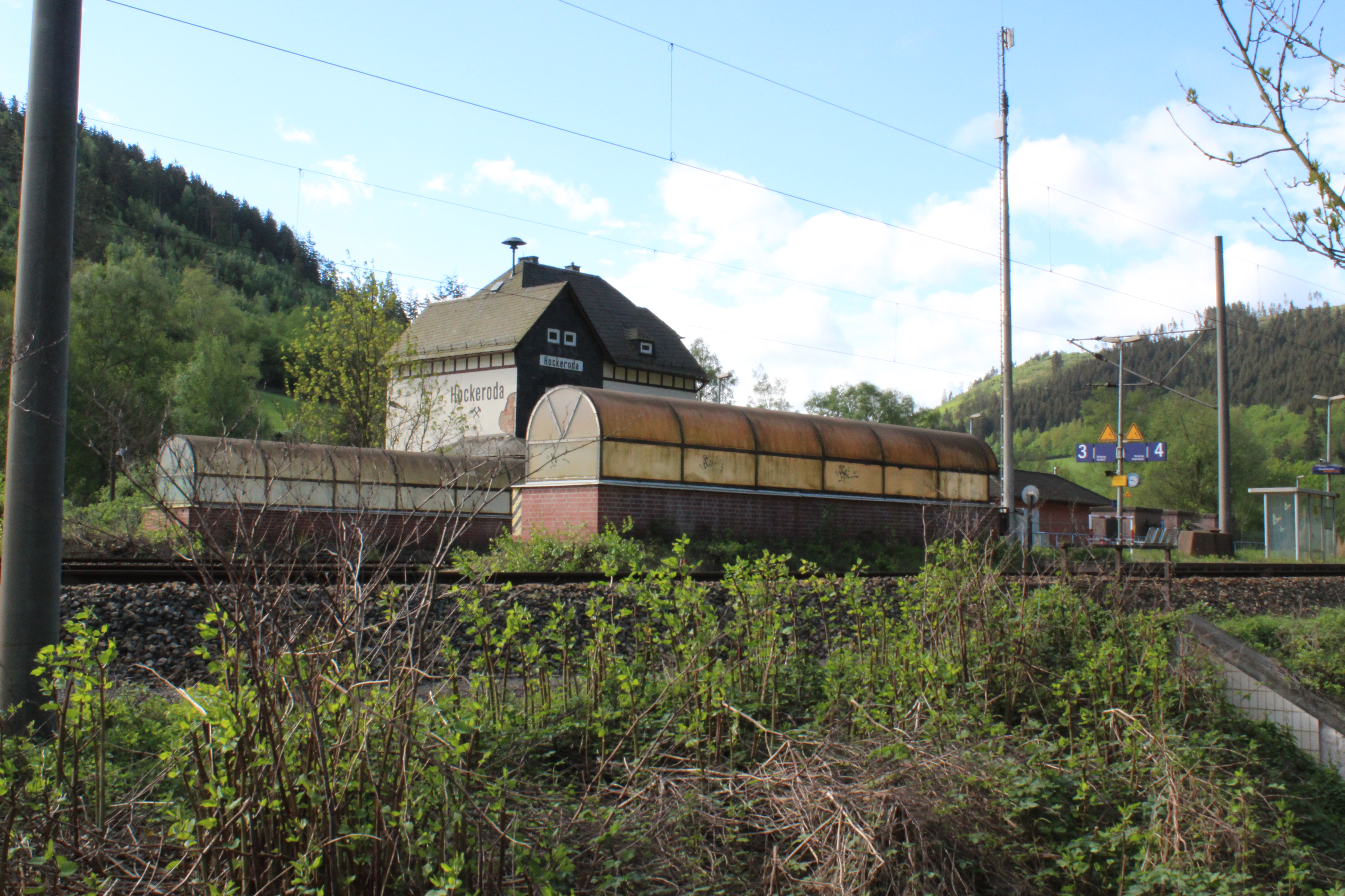 train station Hockeroda